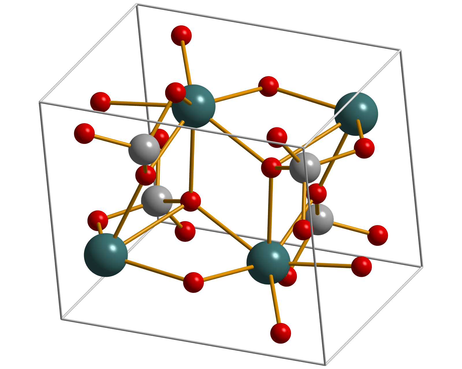 Unit cell of Huttonite (monoclinic ThSiO4). Thorium is shown in green, silicon in grey, and oxygen in red. Structural parameters taken from (based on Mark Taylor and R. C. Ewing (1978). "The Crystal Structures of the ThSiO4 Polymorphs: Huttonite and Thorite". Acta Cryst. B34: 1074–1079.